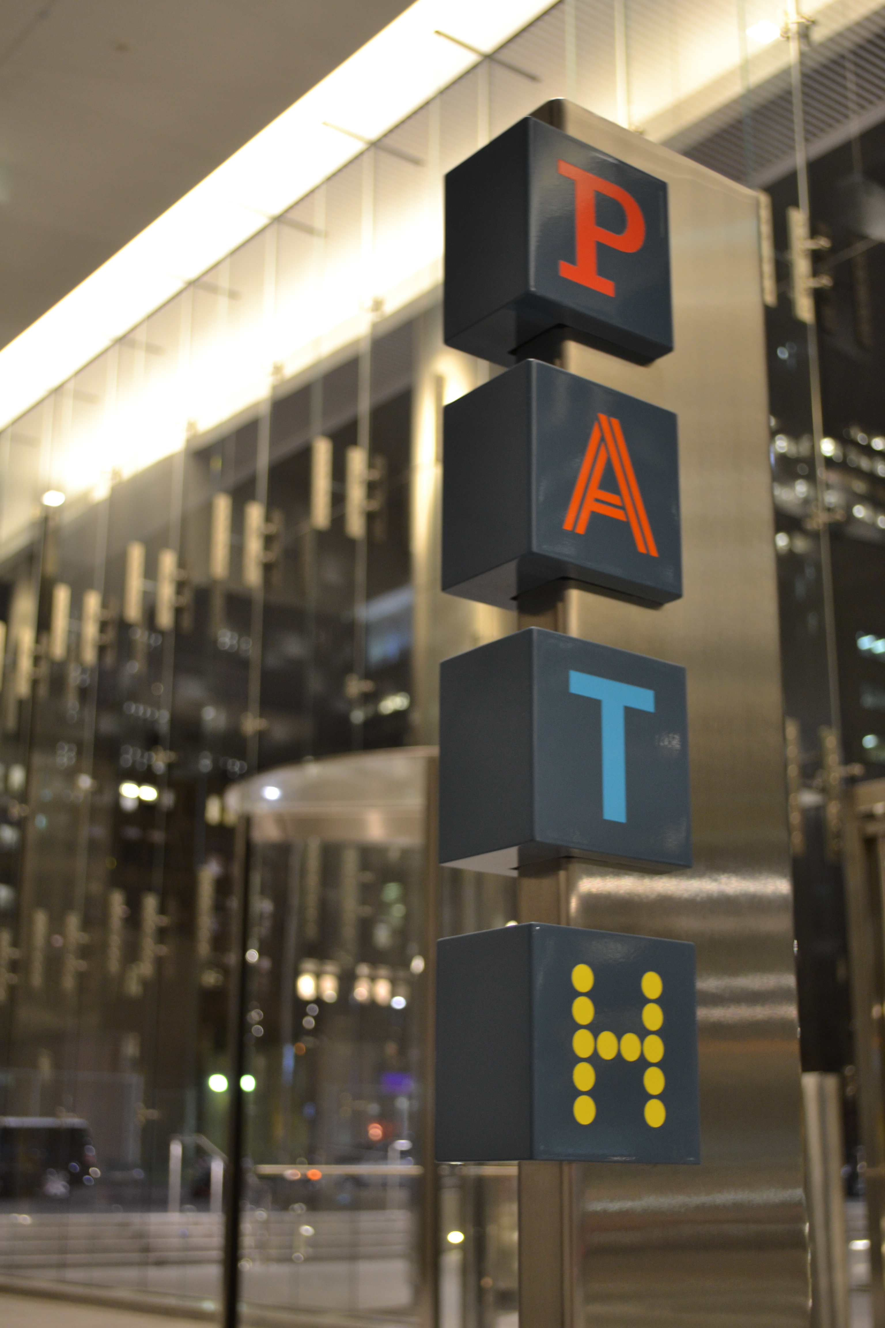 Bay Adelaide PATH entrance.